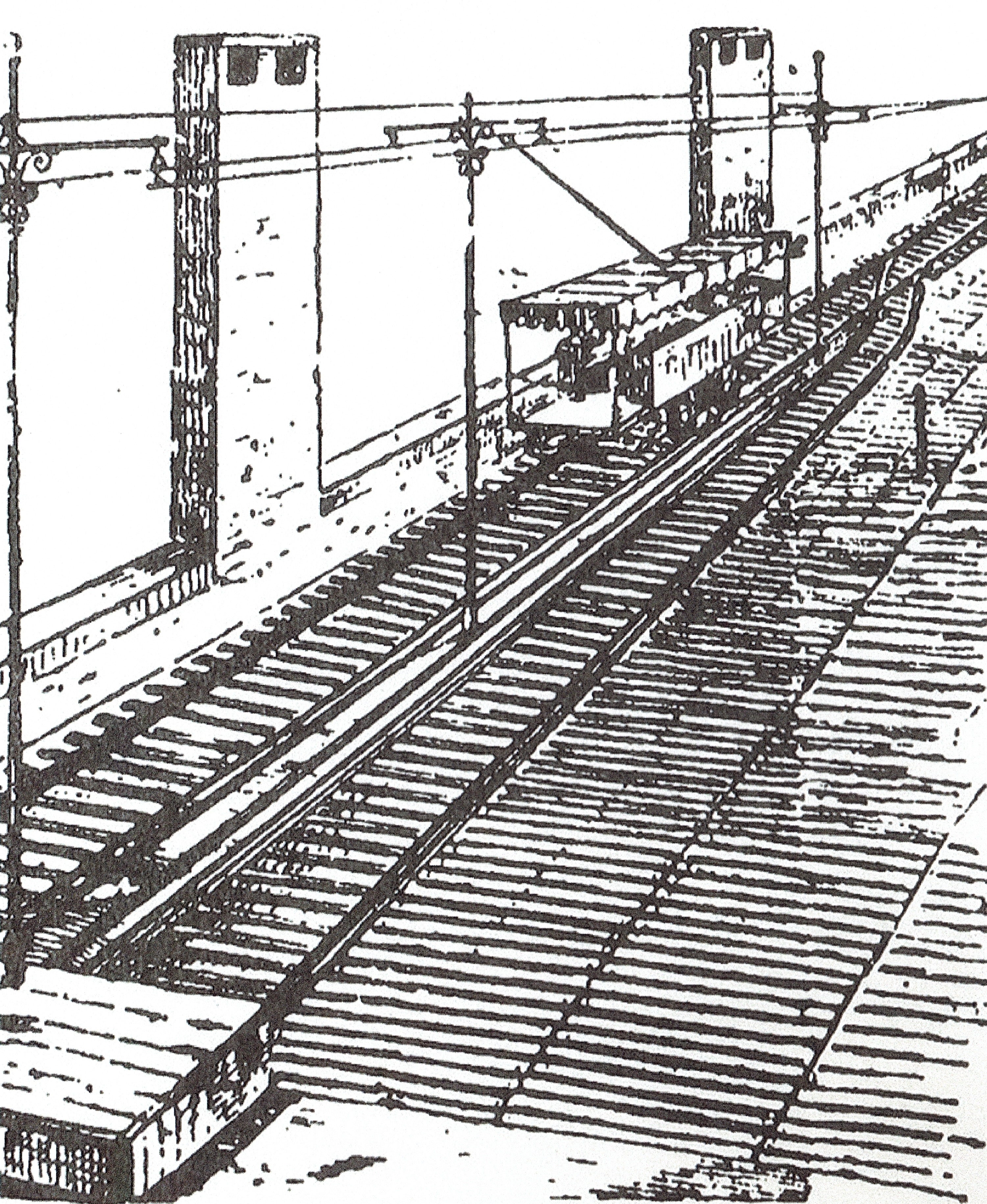 Trolley line on the roof of inventor Rudolph M. Hunter's home at 3710 Chestnut St., Philadelphia, Pennsylvania, in 1893.